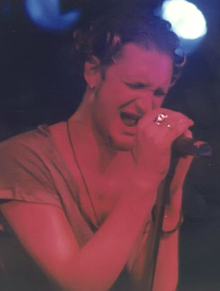 Layne Staley playing with Alice in Chains at The Channel in Boston, MA.